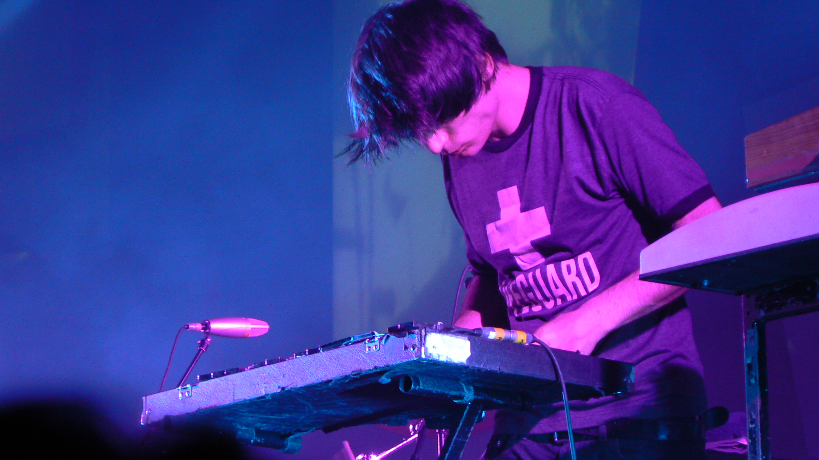 Jonny Greenwood playing a glockenspiel with Radiohead at the Heineken Music Hall